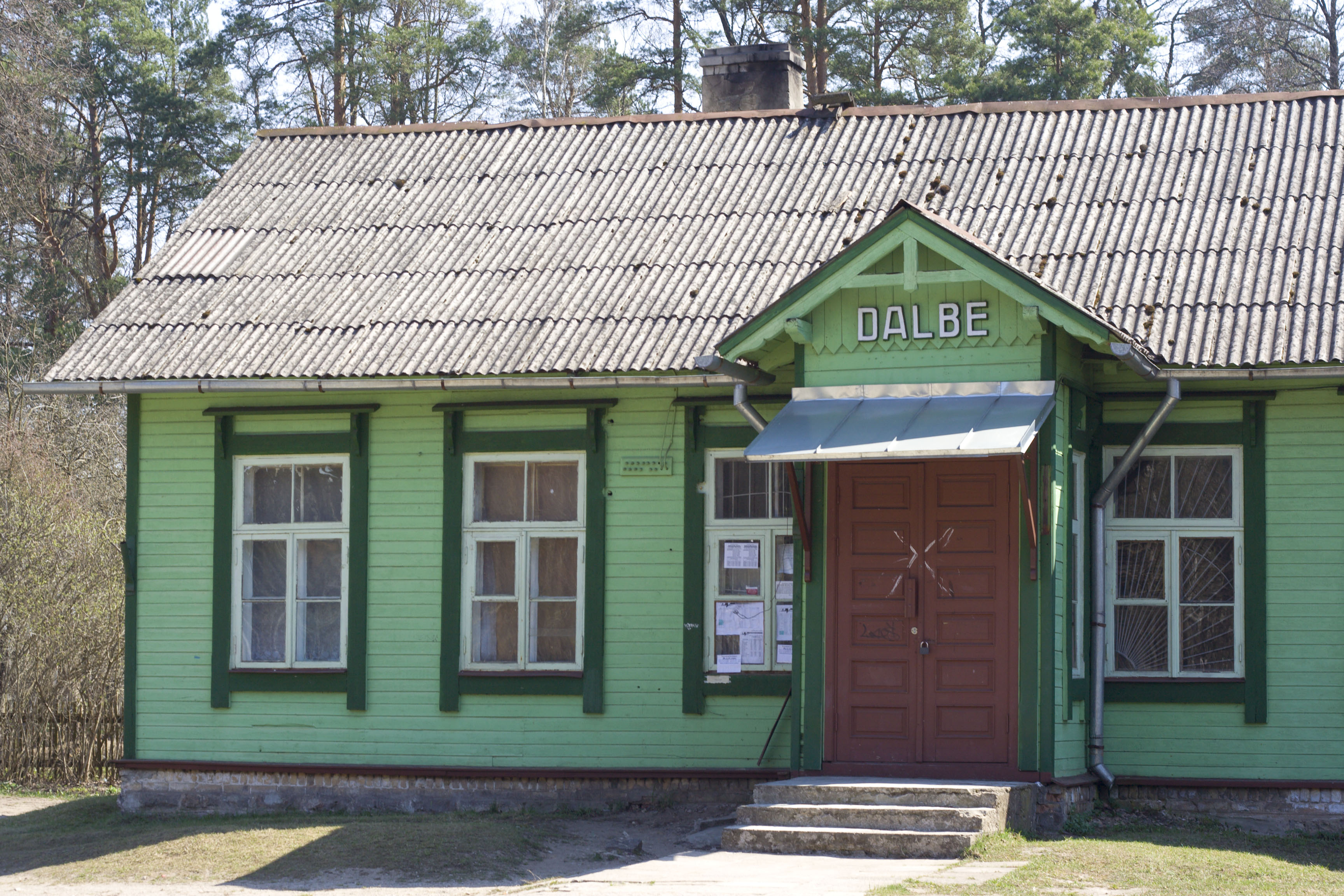 Dalbe train station. Located in the 29th kilometer of railway Riga-Jelgava, Latvia